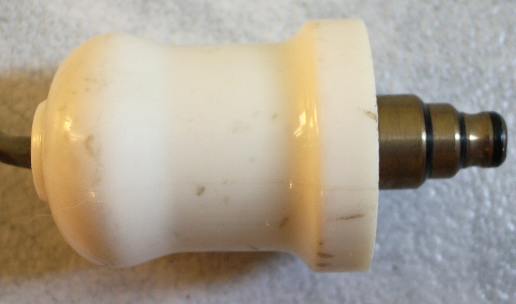 Old German telephone jack